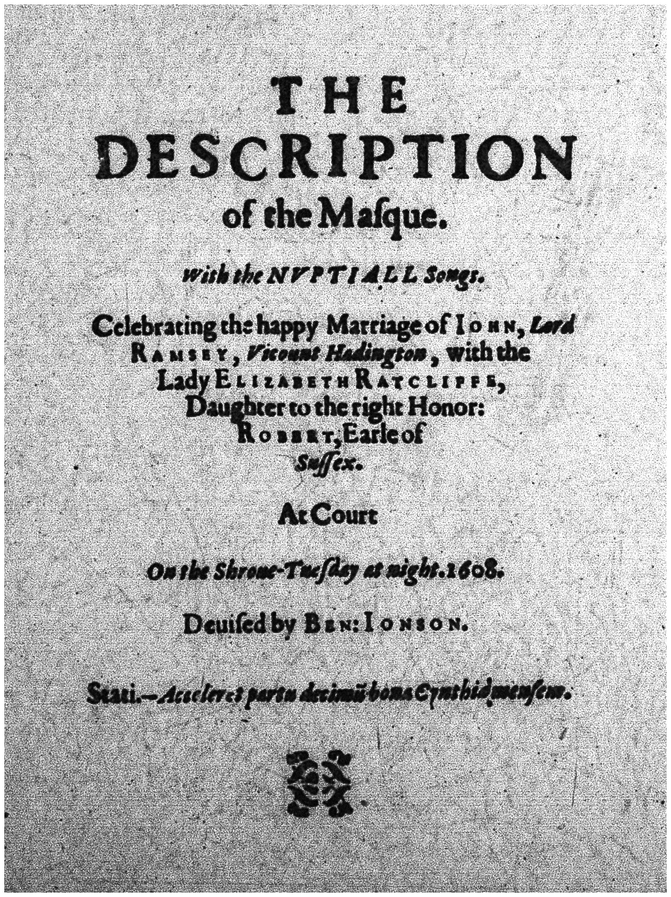 Title page of a masque written by Ben Jonson which was performed and published in 1608